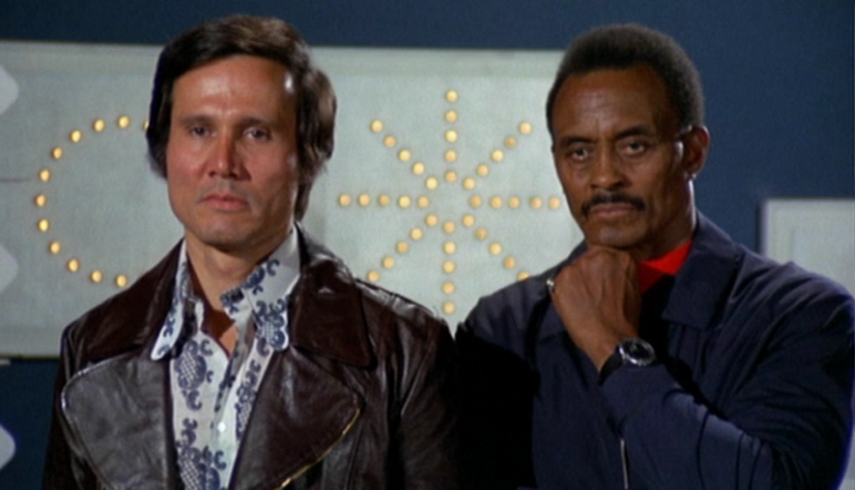 Henry Silva and Woody Strode in a scene of the film La mala ordina